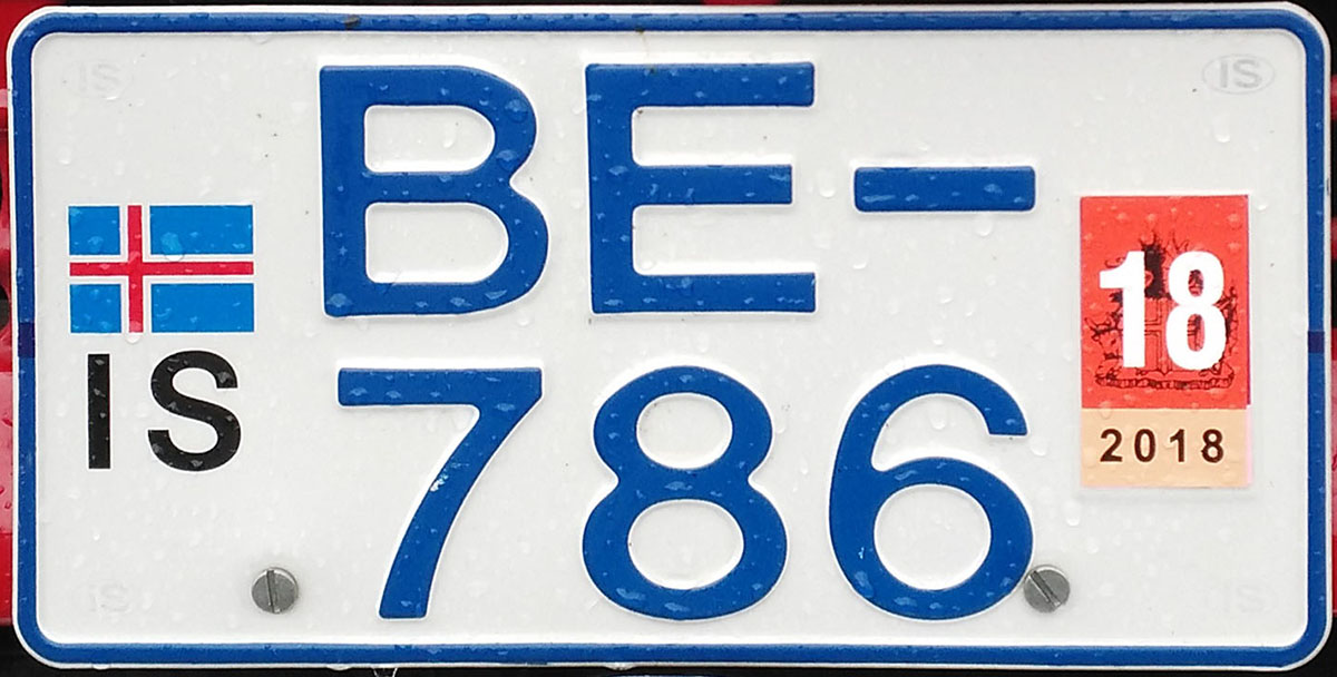 Icelandic license plate model before 2007.